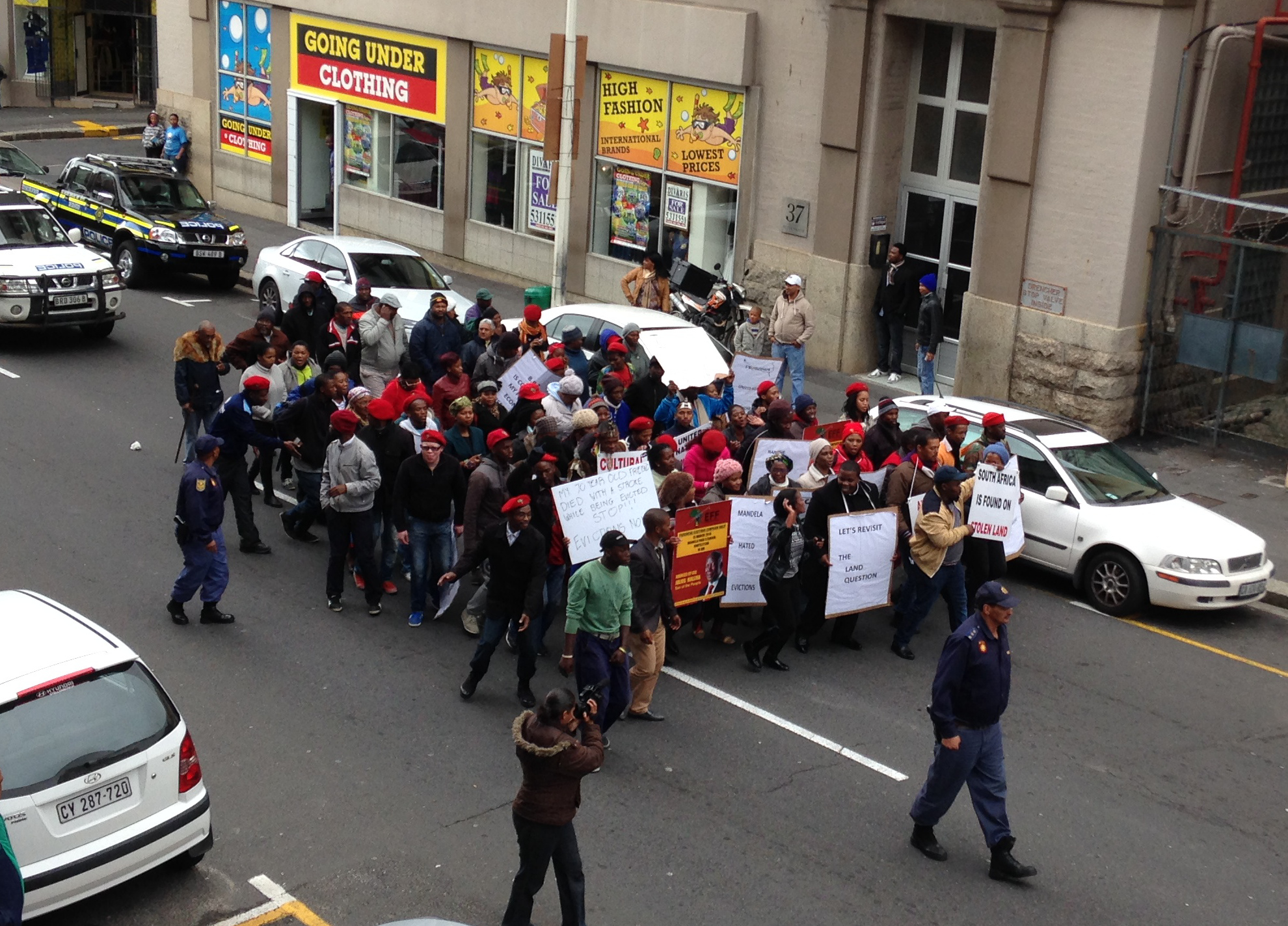 A small march by the EFF on Mandela Day (18 July) in Buitenkant Street in Cape Town protesting in support of land reform in South Africa.